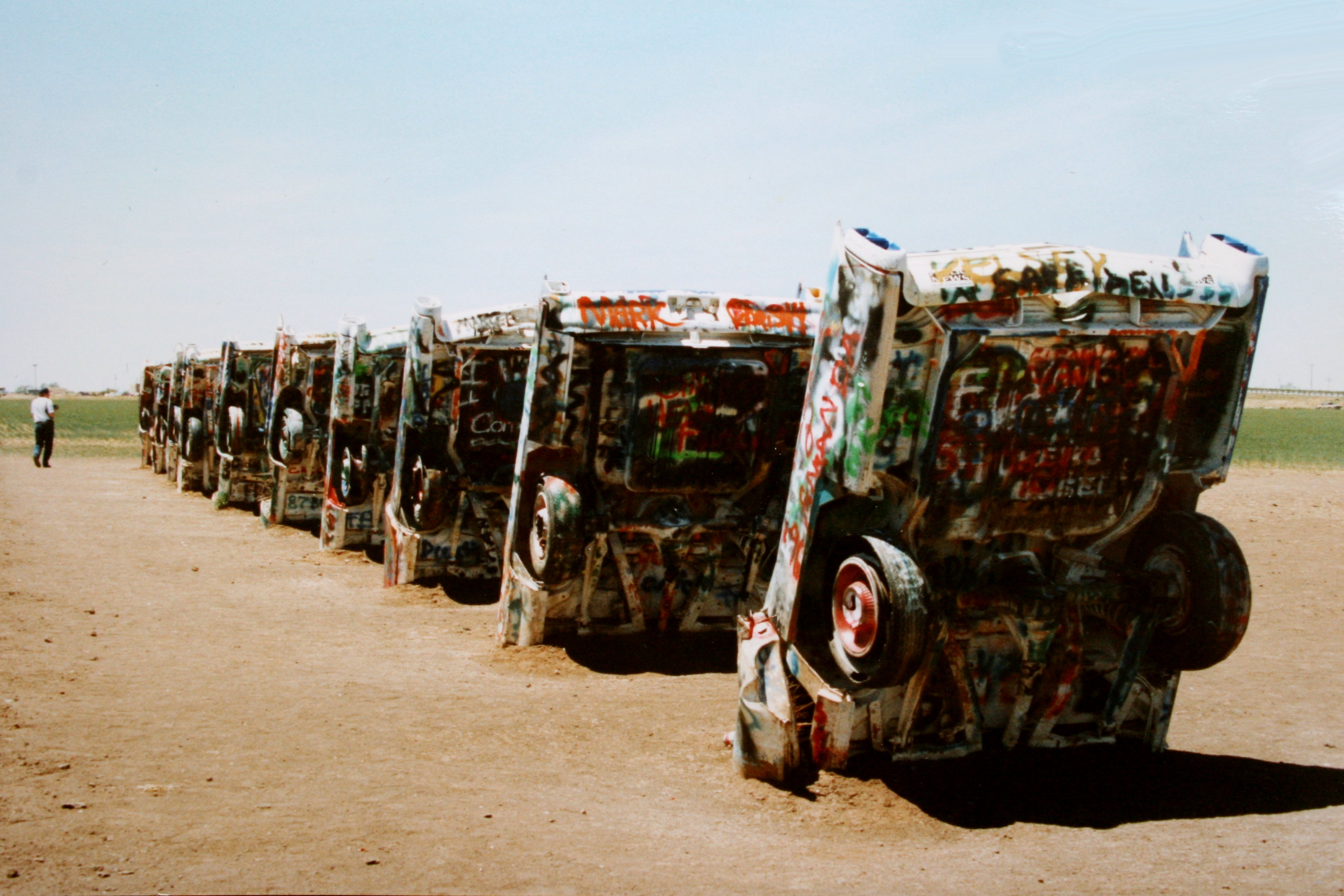 Cadillac Ranch, Amarillo Texas